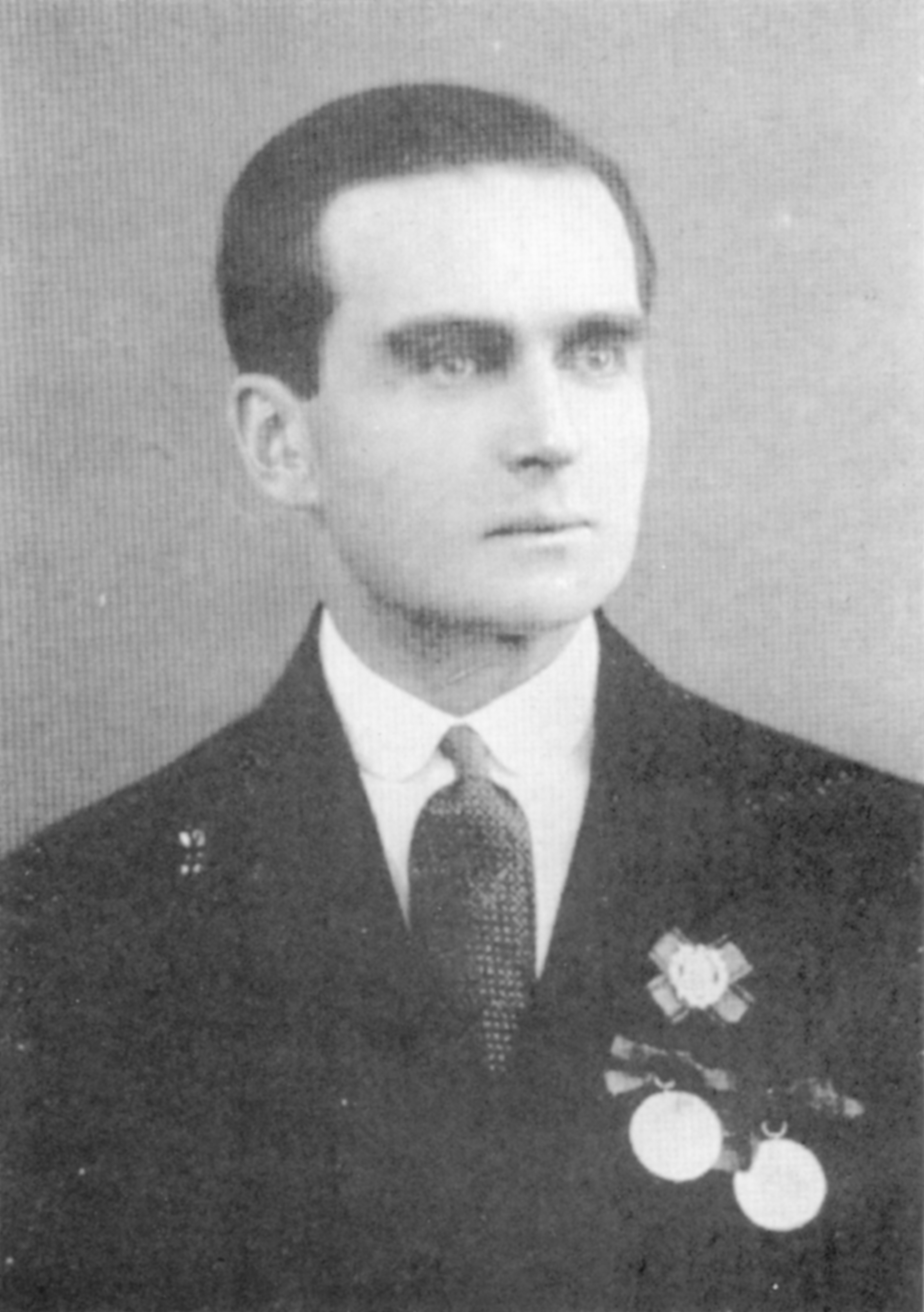 Kraft Henckel von Donnersmarck (1890–1977).